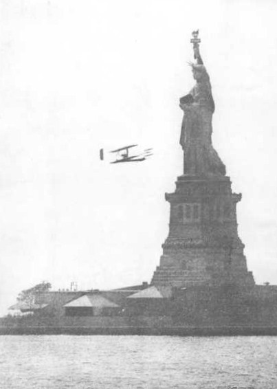 Wilbur Wright flies around the Statue of Liberty in 1909, a canoe slung underneath in case he had to ditch in the sea.